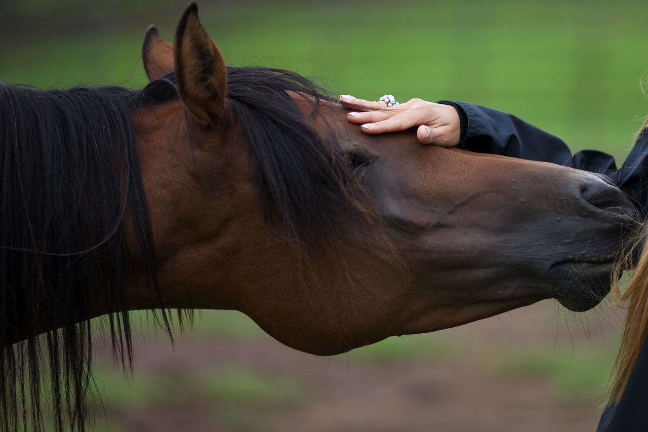 Arabian Horse | Simeon Stud | Australia